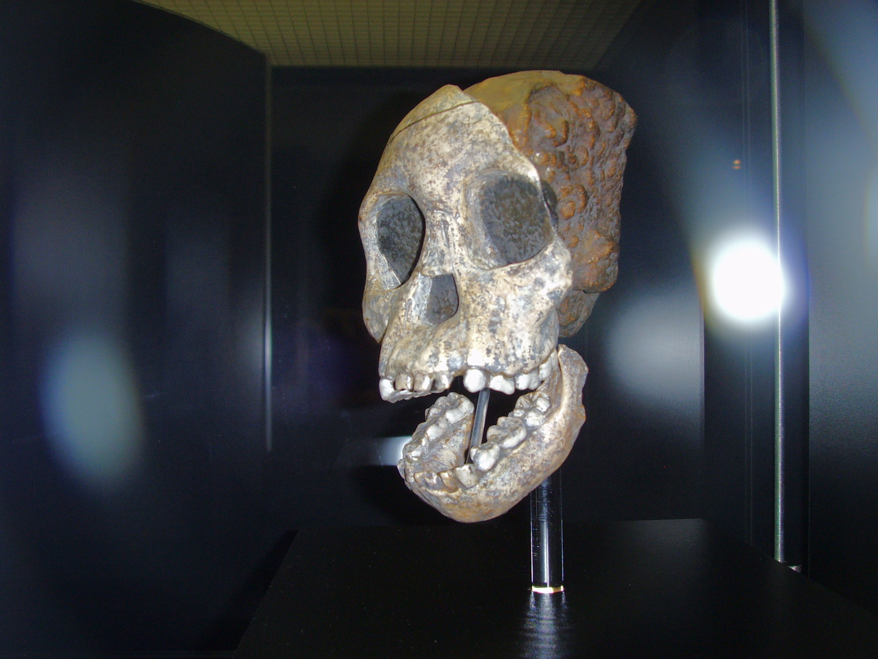 Australopithecus africanus from Taung, replica, Senckenberg-Museum, Frankfurt am Main (Germany)